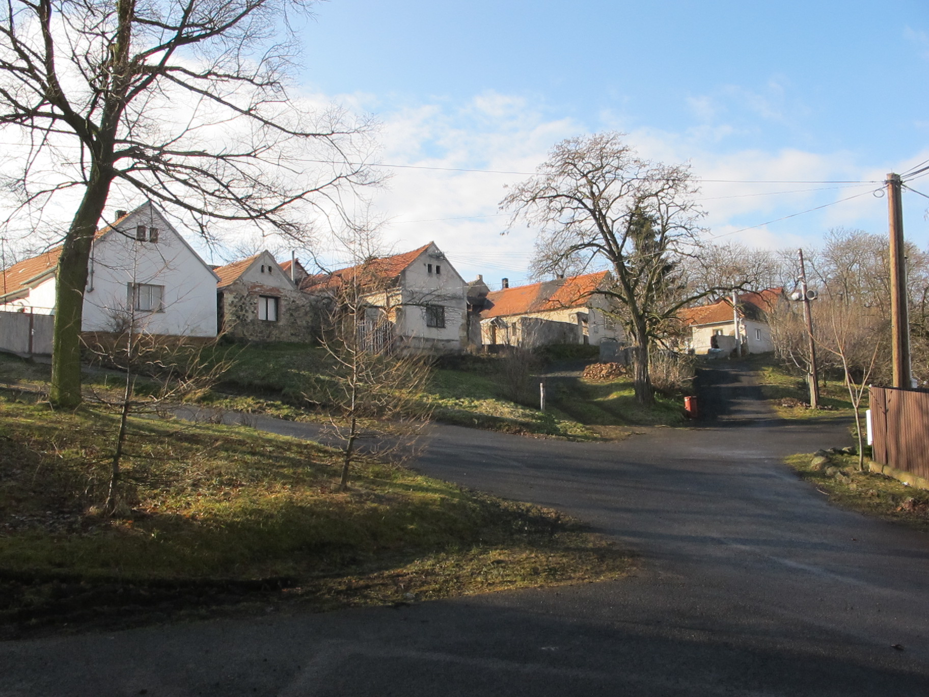 Village square in Mnichovský Týnec